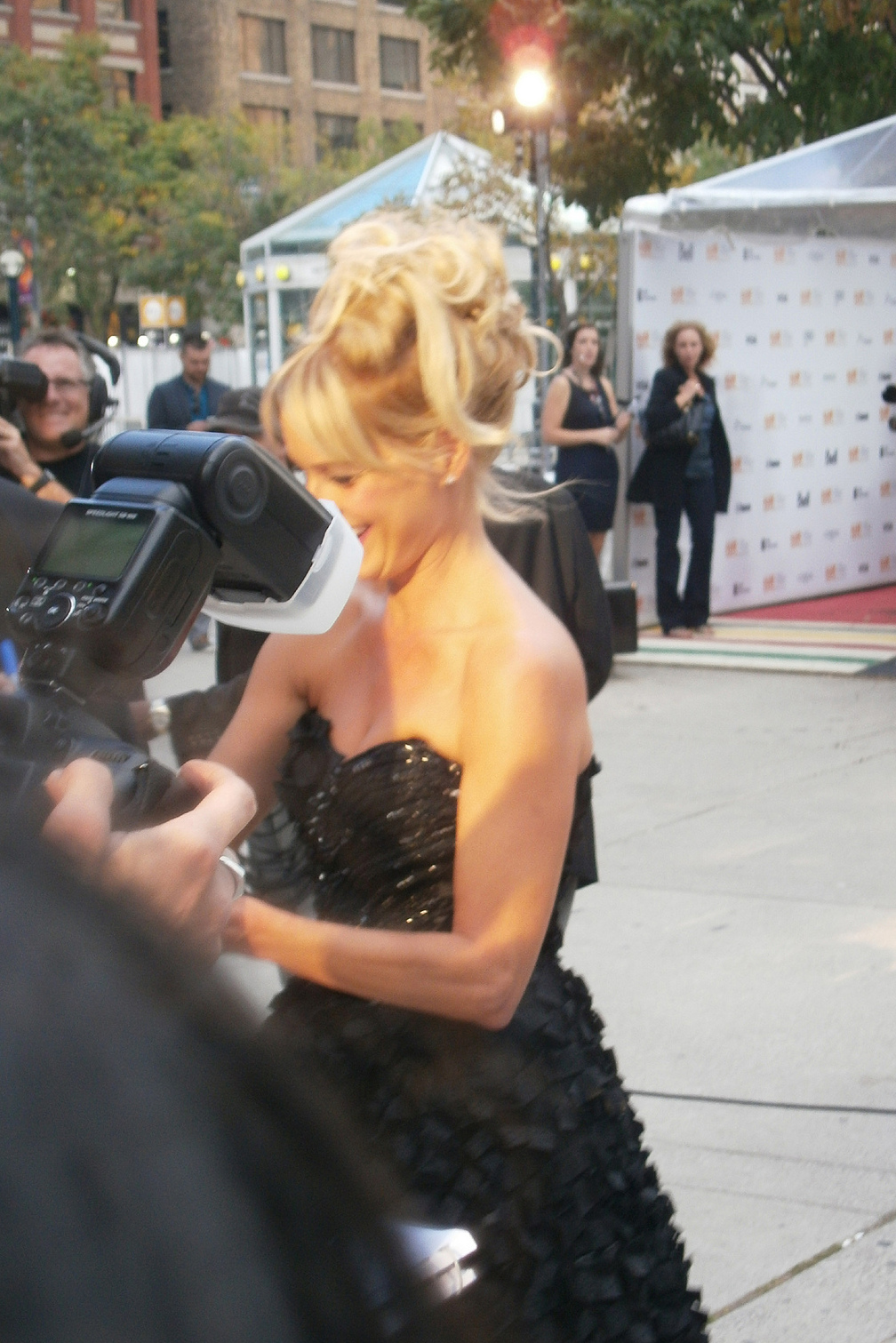 Katherine LaNasa signing autographs at 2012 TIFF for red carpet event for screening of Jayne Mansfield's Car. She arrived in the same Audi SUV with Billy Bob Thornton and I almost forgot about her.